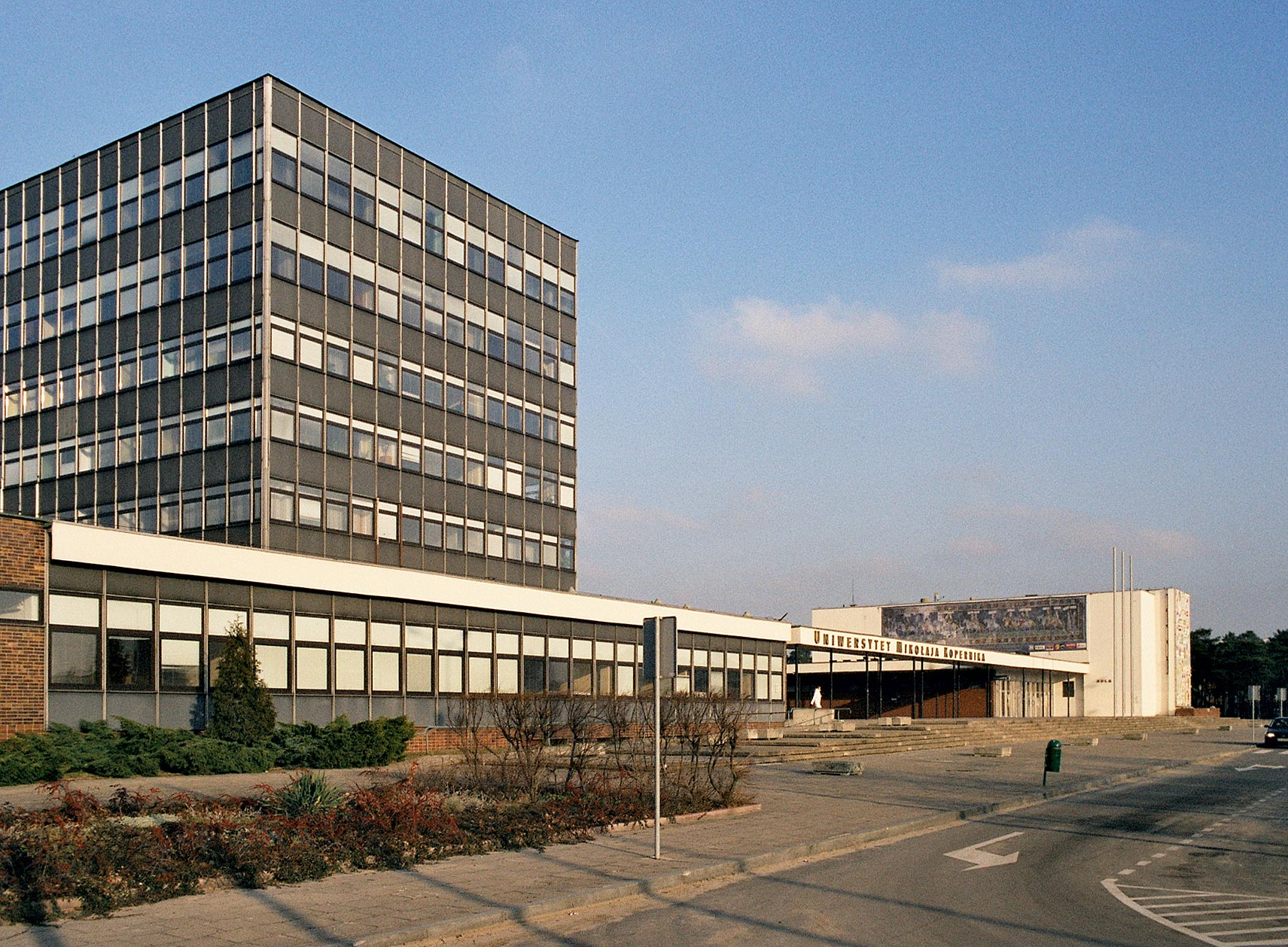 Rector's office of Nicolaus Copernicus University in Toruń